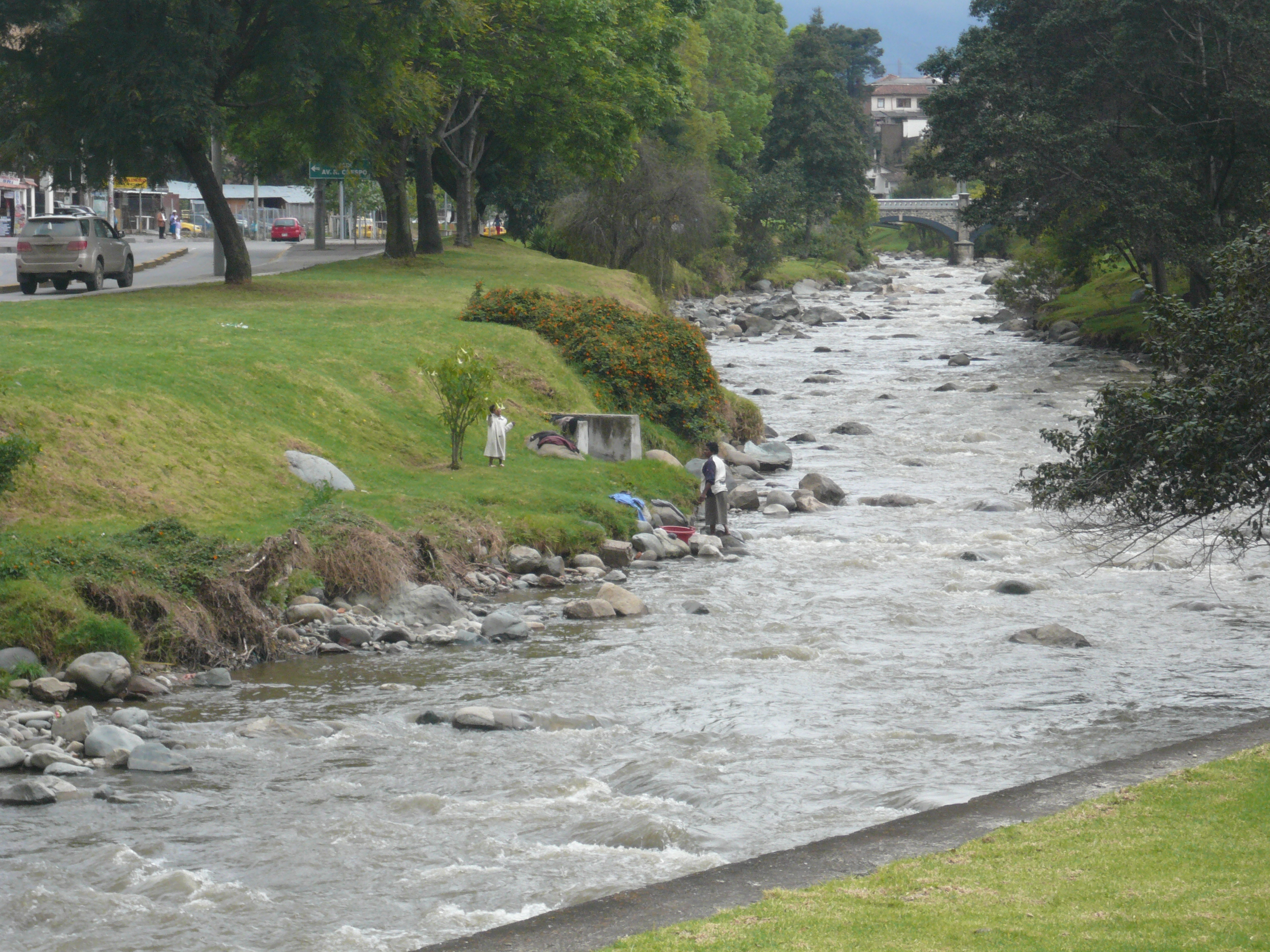 Tomebamba river in Cuenca, Ecuador